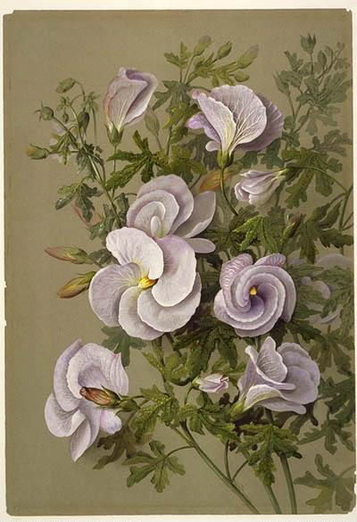 Illustration of Alyogyne huegelii titled: Lilac hibiscus and described at an6731182&fullrecord as 1 watercolour ; 54.7 x 38 cm. with futer notes below